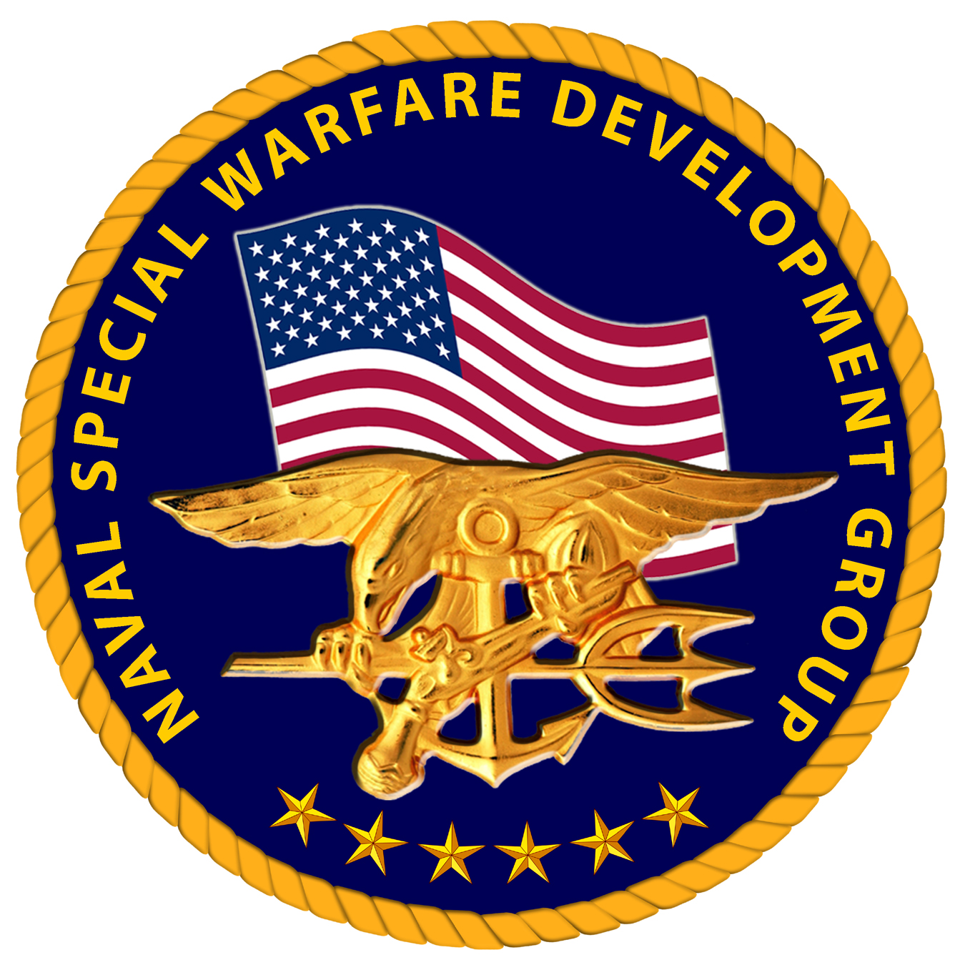 Naval Special Warfare Development Group (COMNAVSPECWARGRU) DEVGRU logo